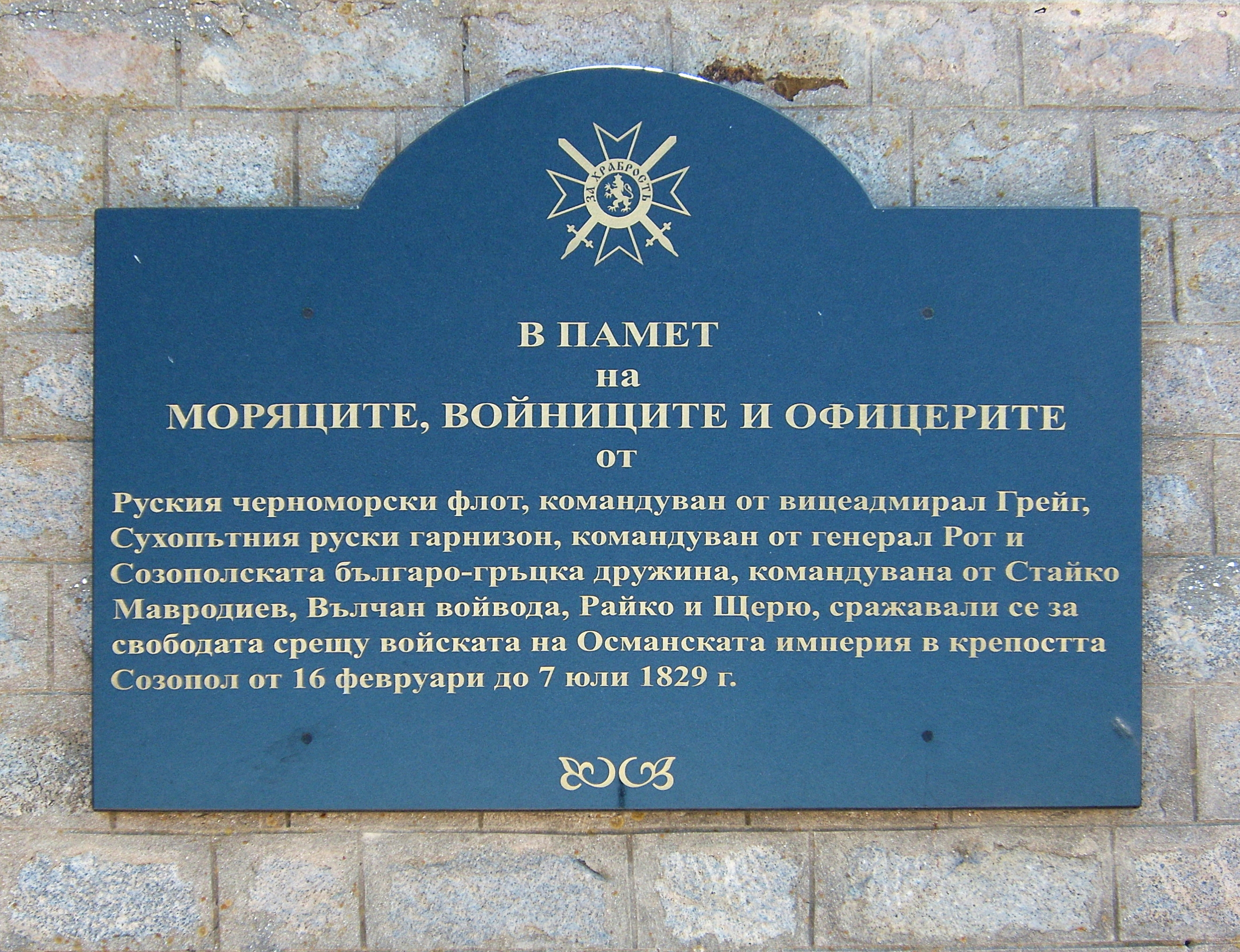 Memorial plate of russian, bulgarian and grecian military sailors, soldiers and officers, who fought against the Ottoman Empire for the freedom of Bulgaria, from 17 Feb to 07 July 1829.